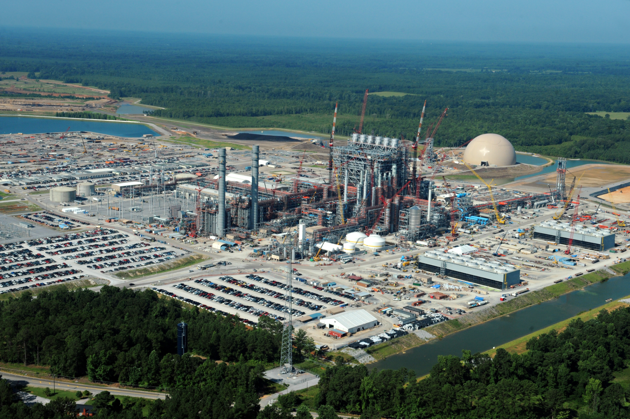 The Plant is currently under construction.